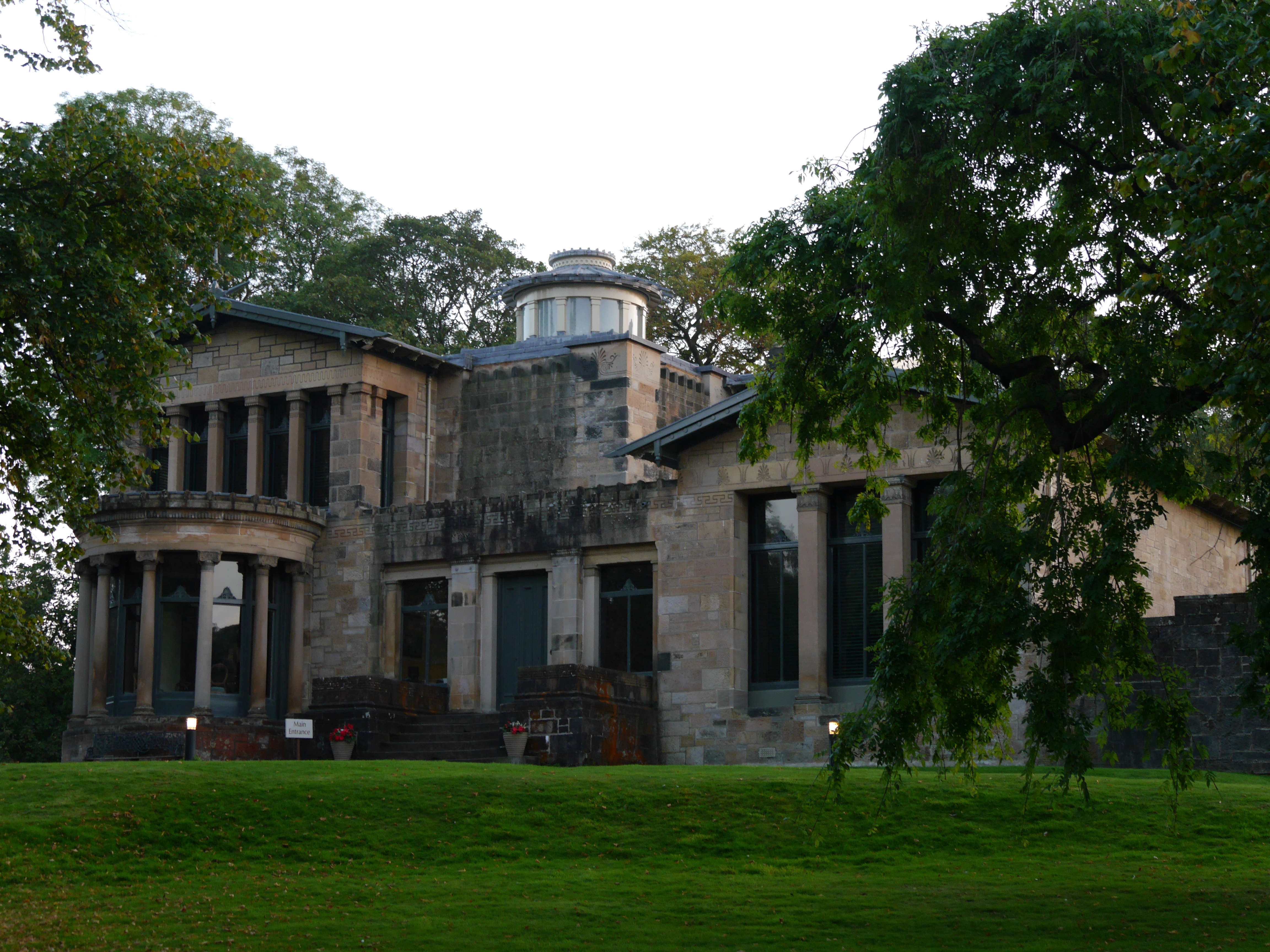 Holmwood House, Glasgow Wikidata has entry Q5883823 with data related to this building.